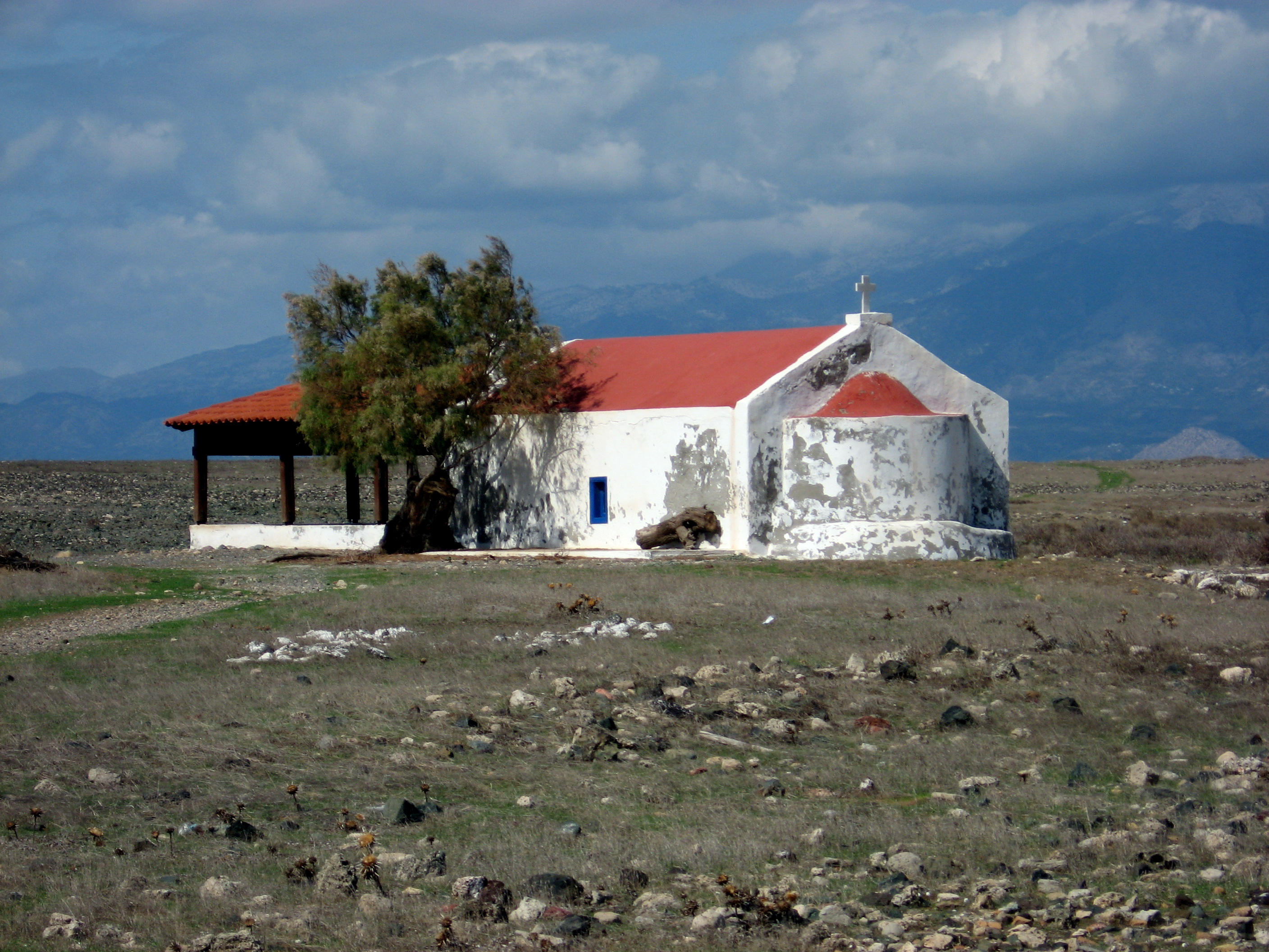 St Micheals Church Chrissi island, Ierapetra, Crete